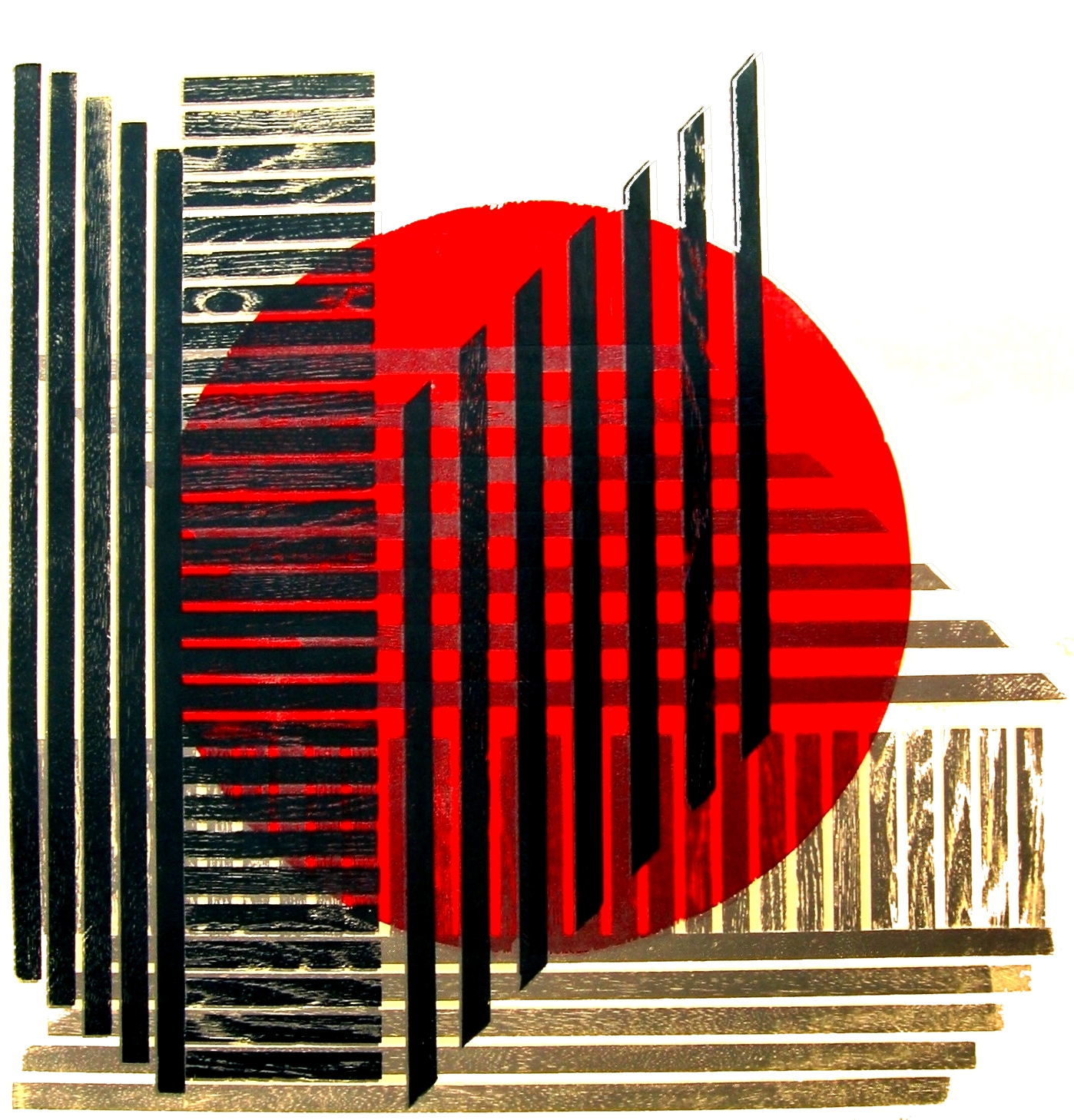 D 374 Remember T 06